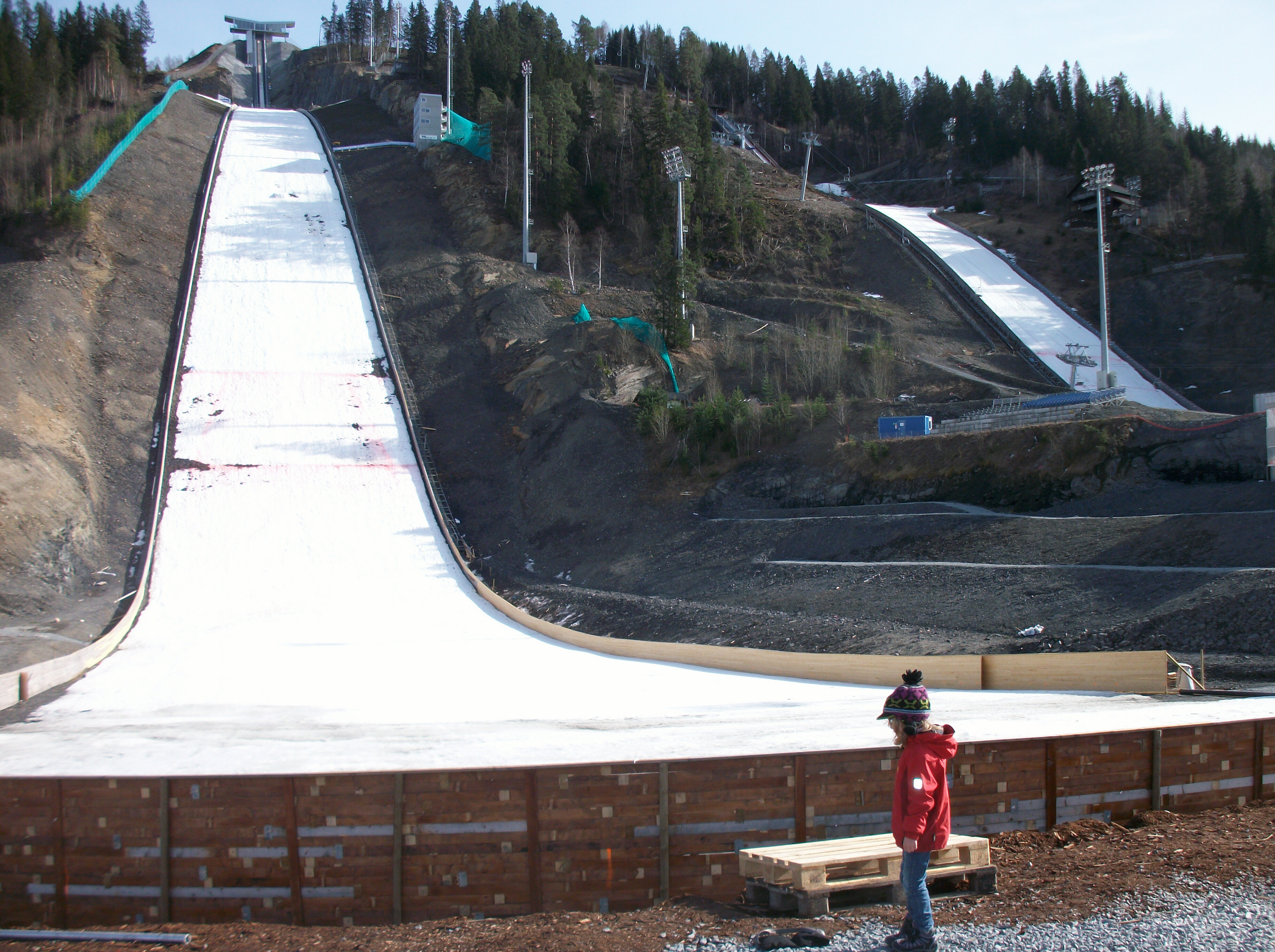 Vikersundbakken K 200 in 2012